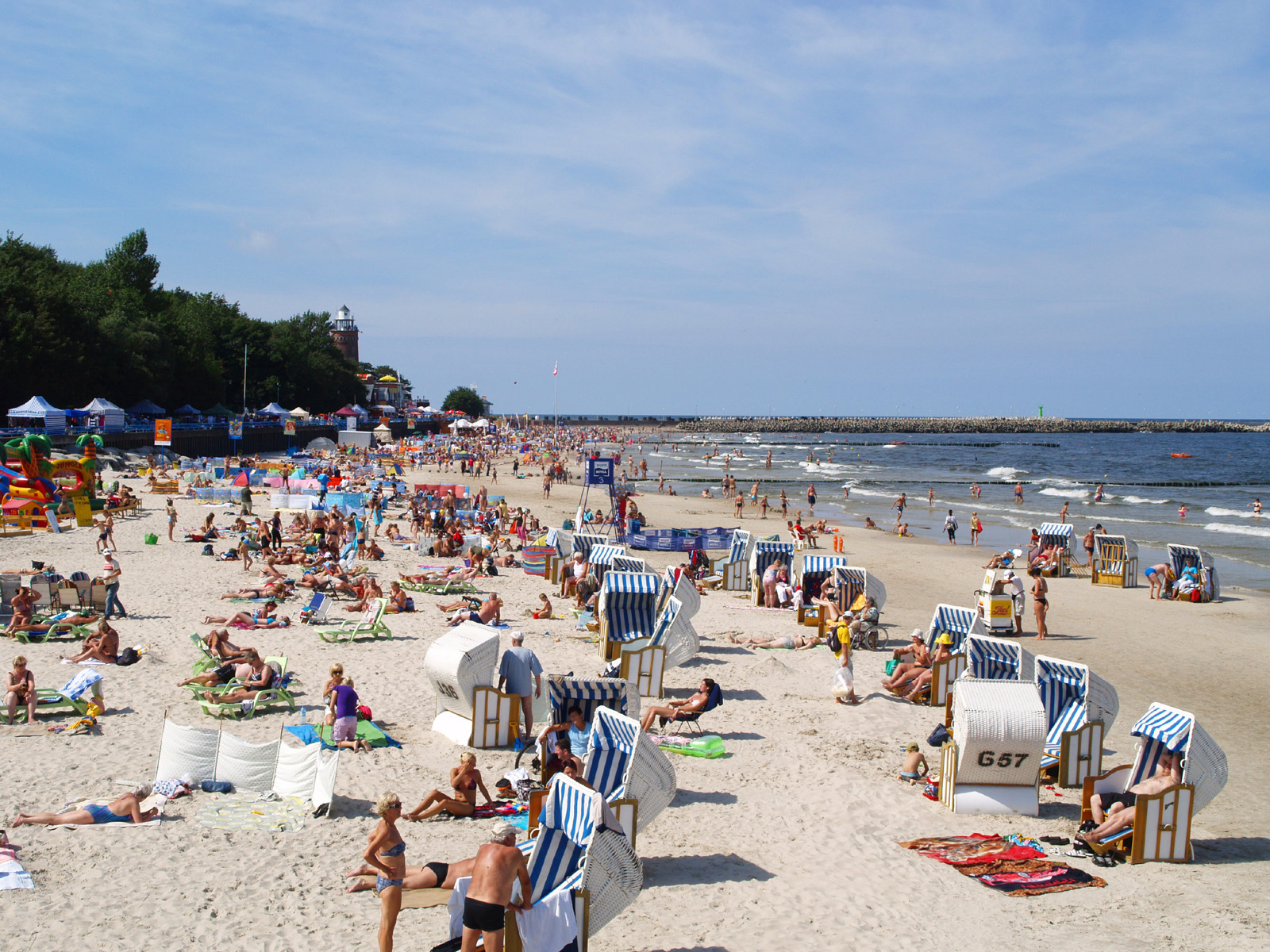 Beach in Kołobrzeg